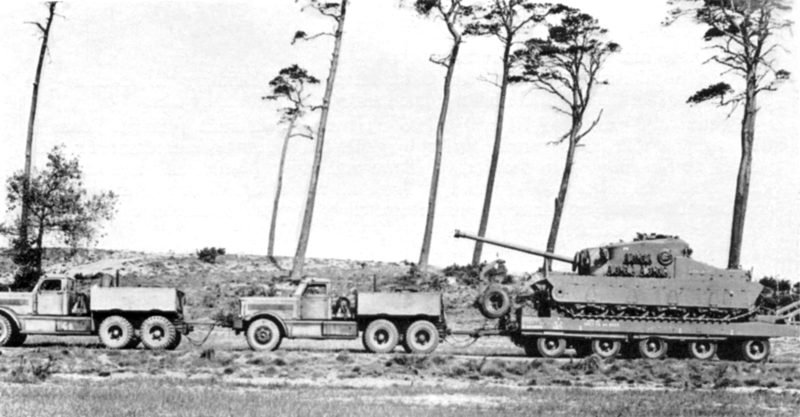 The British Assault Tank A39 Tortoise on 80-ton tilt-bed trailer, double-headed by Diamond-Ts, during trials in BAOR, 1948.